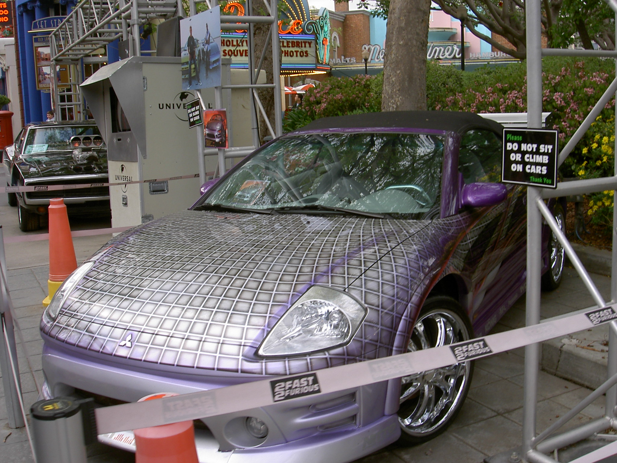 Mitsubishi Eclipse Spyder which was remodeled for the film 2 Fast 2 Furious. Picture taken at Universal Studios Hollywood.